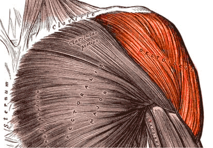 Musculus deltoideus anterior, colorized